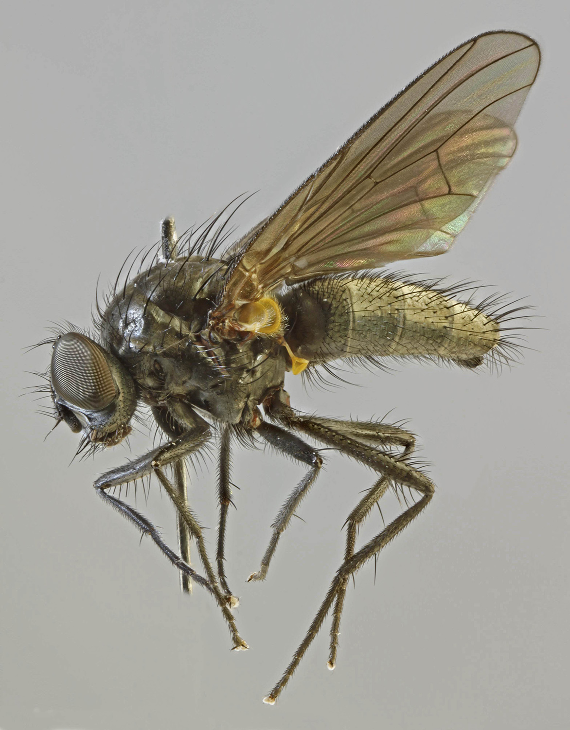 Lophosceles cinereiventris, North Wales, Sept 2012